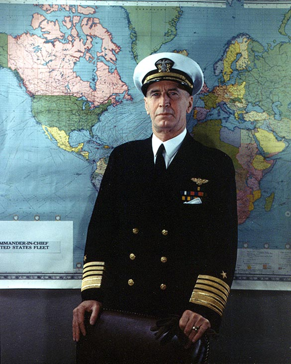 Admiral Ernest J. King, USN Commander-in-Chief, U.S. Atlantic Fleet.